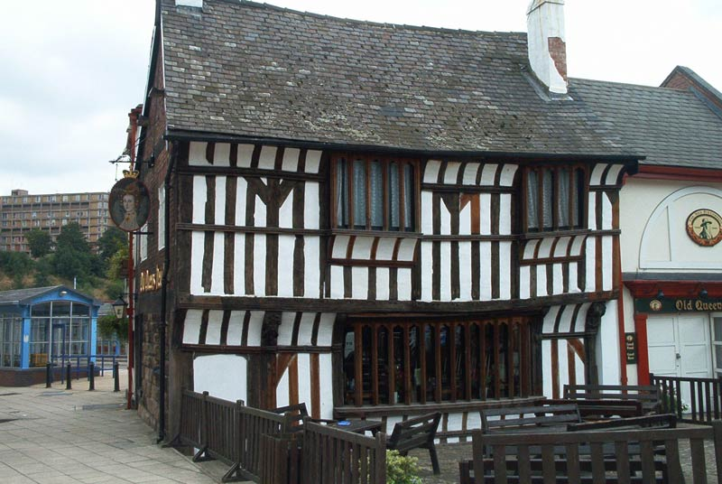 Part of the Old Queen's Head public house, Pond Hill, Sheffield, South Yorkshire, seen from the northwest